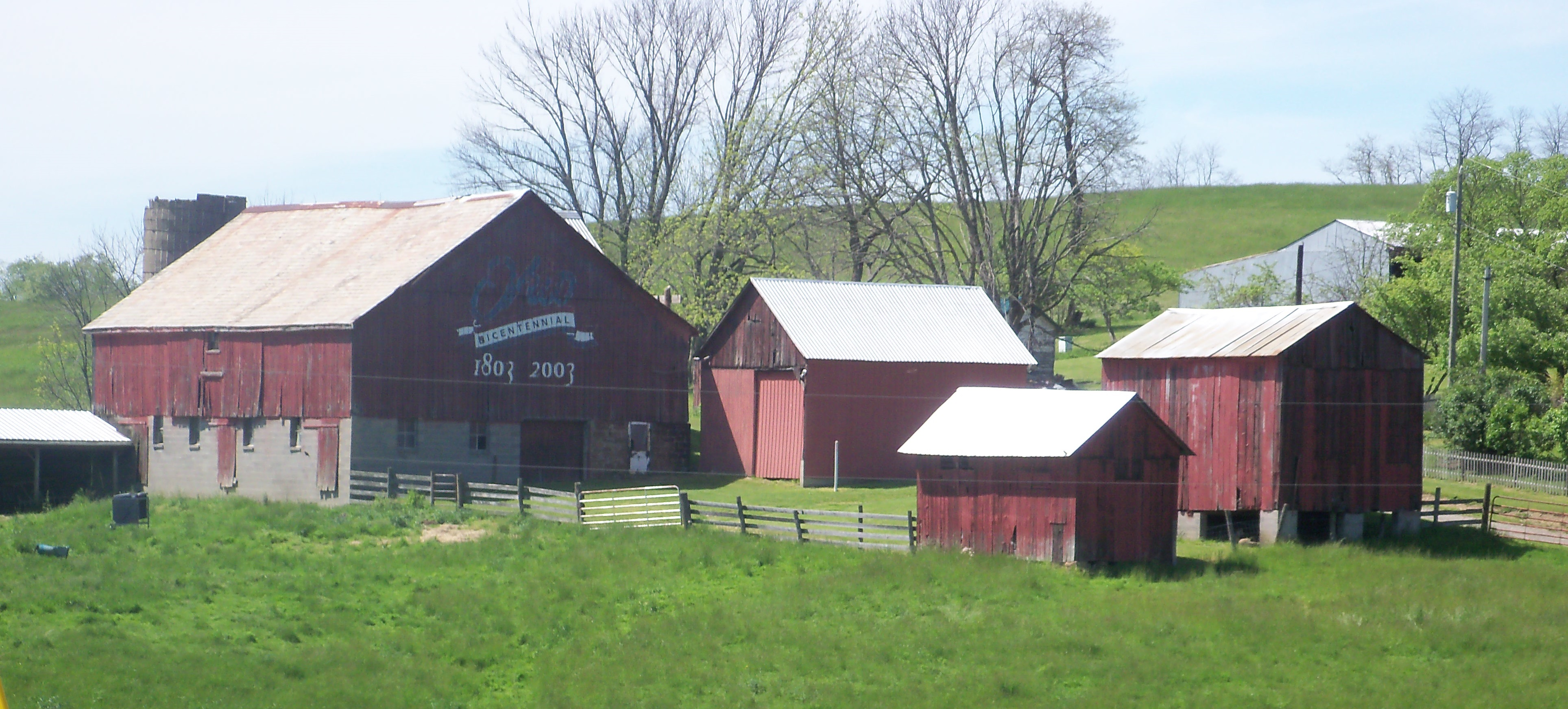 Jefferson County, Ohio Bicentennial Barn and associated outbuildings located on Ohio State Route 213